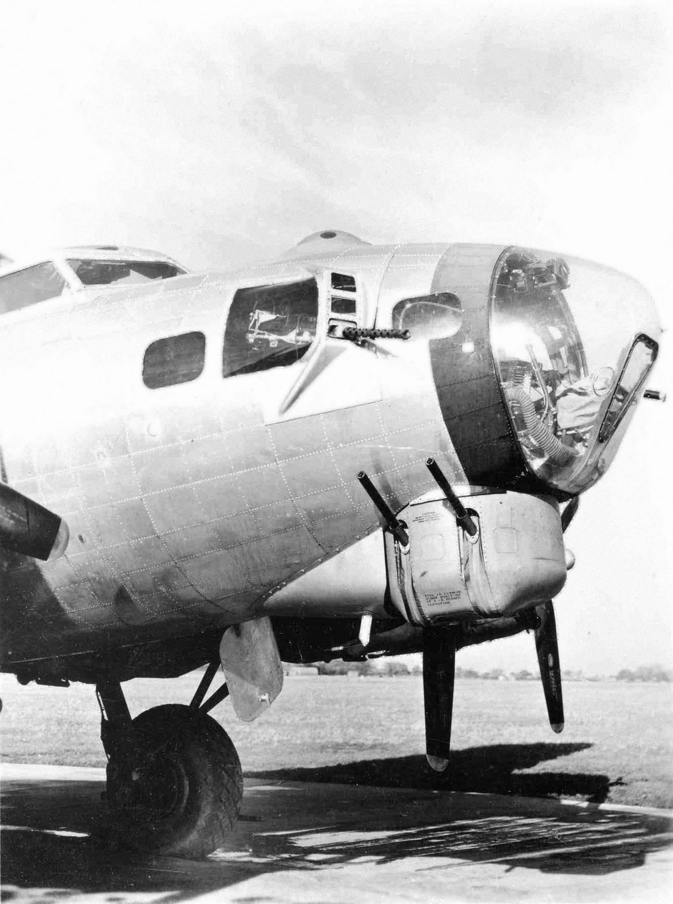 Boeing B-17G nose detail. (U.S. Air Force photo)